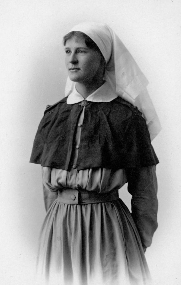 Nurse Ella McLean. Nurse McLean wearing a nurse's veil and cape over her uniform.